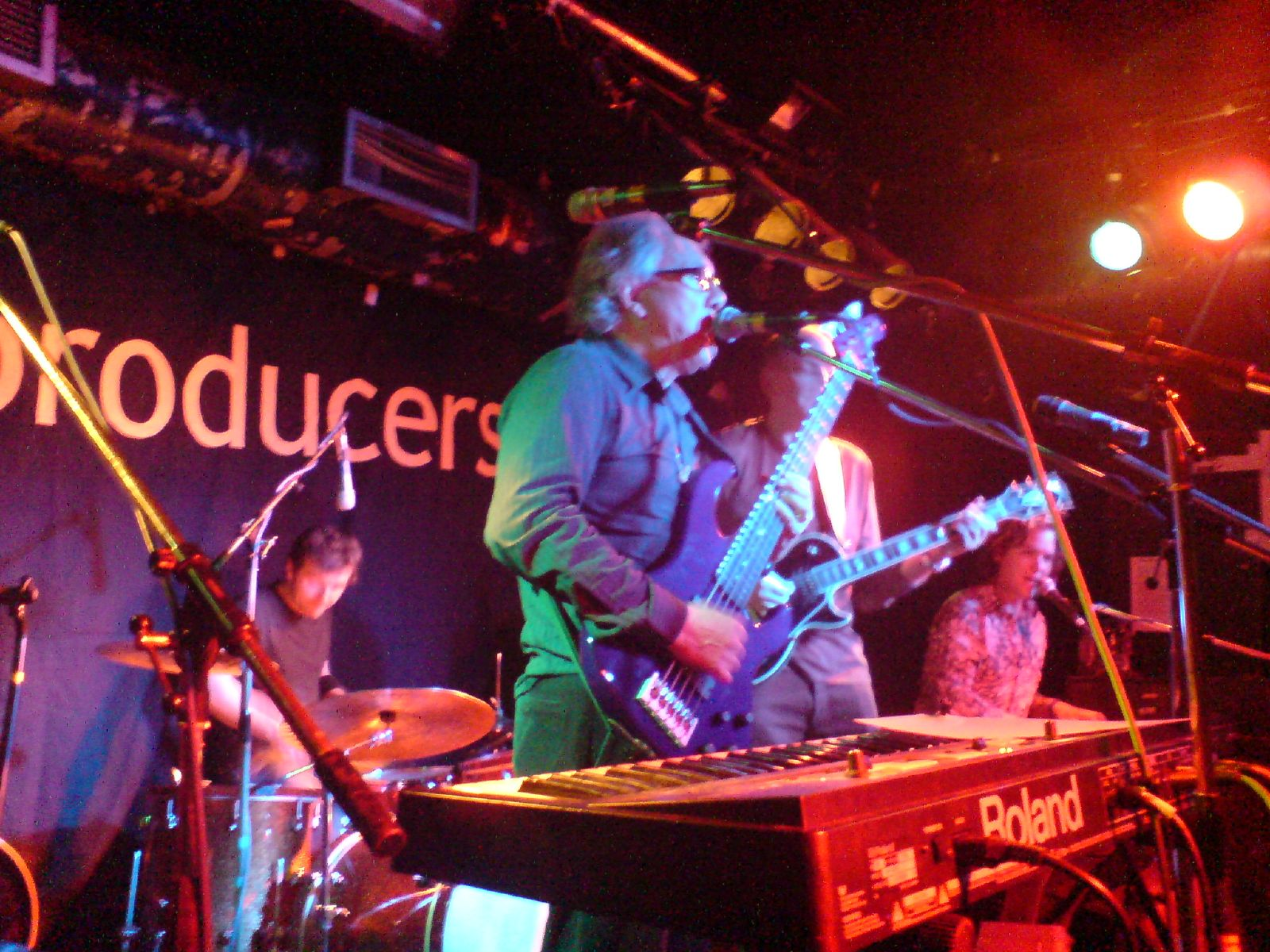 Horn (centre) with The Producers, 2007.